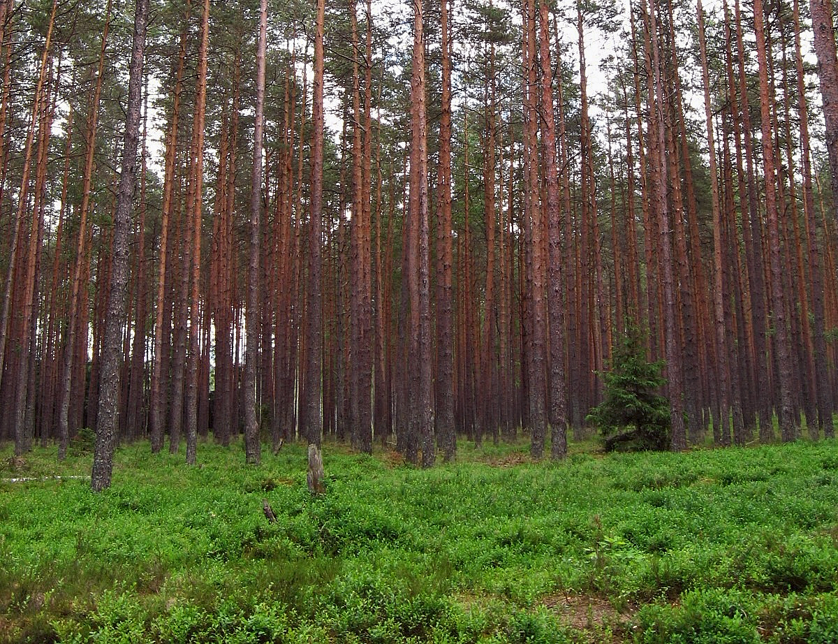 Pine forest, Poland.